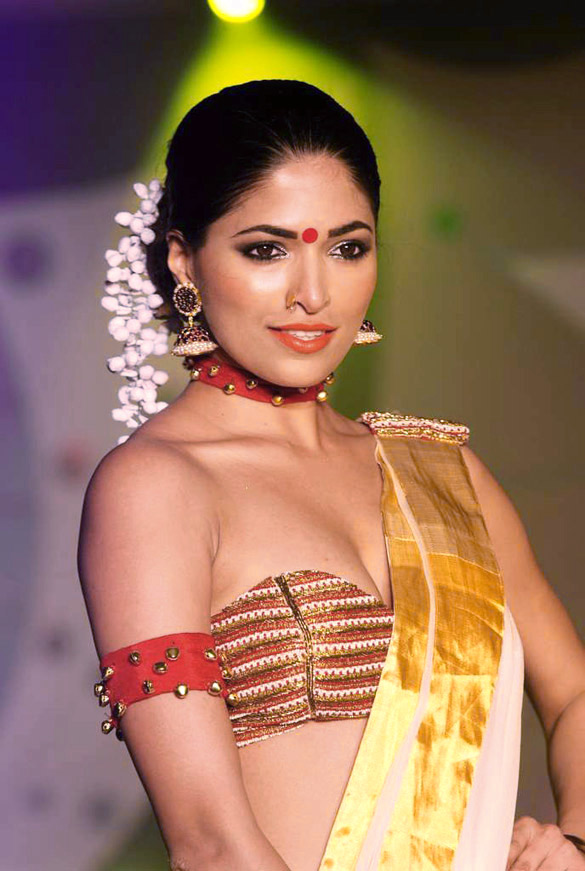 Parvathy Omanakuttan at SNDT Chrysalis 2012 fashion show.